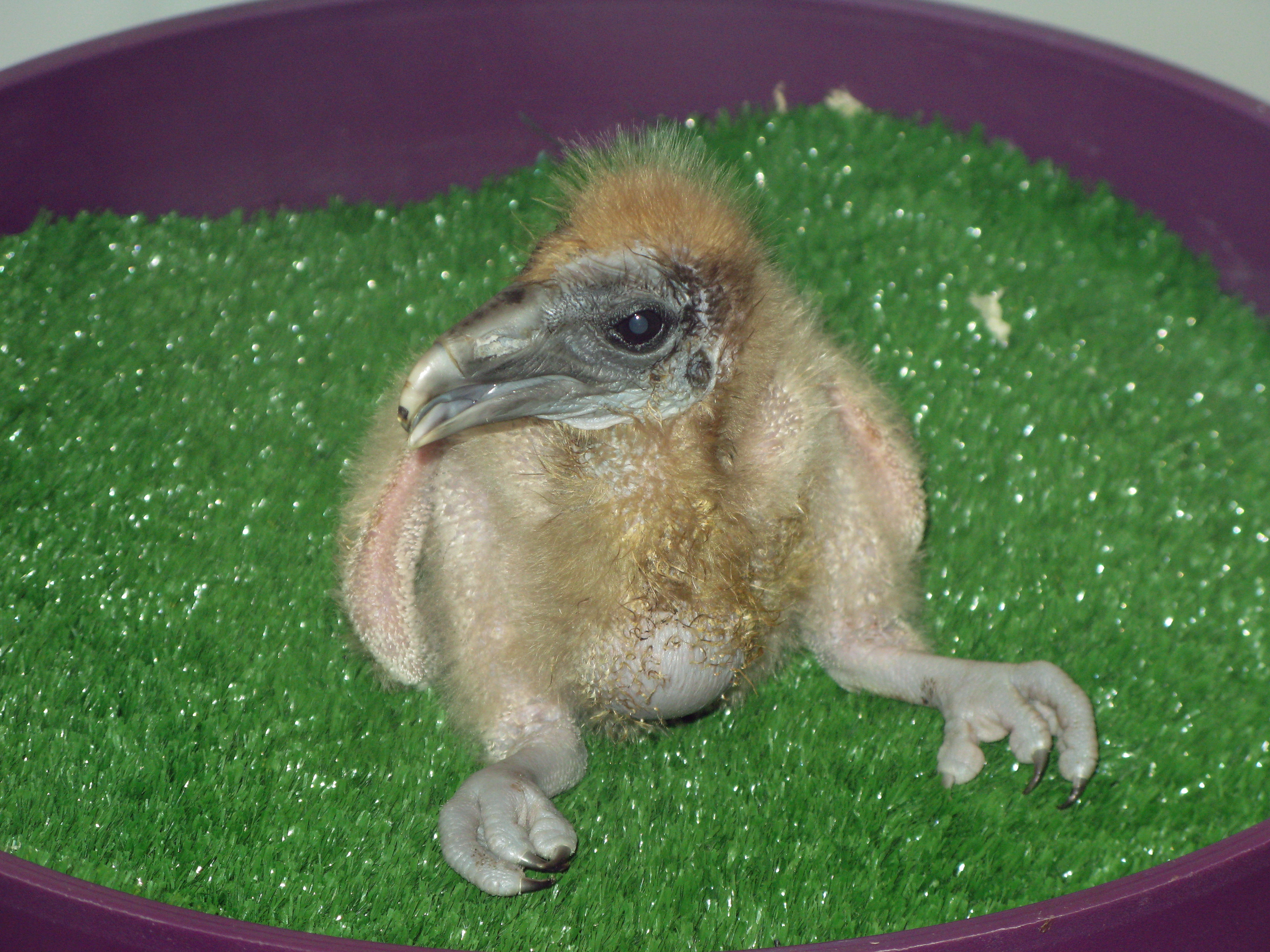 Baby Egyptian vulture (neophron percnopterus), 18 days old, Ménagerie du Jardin des plantes, Paris.